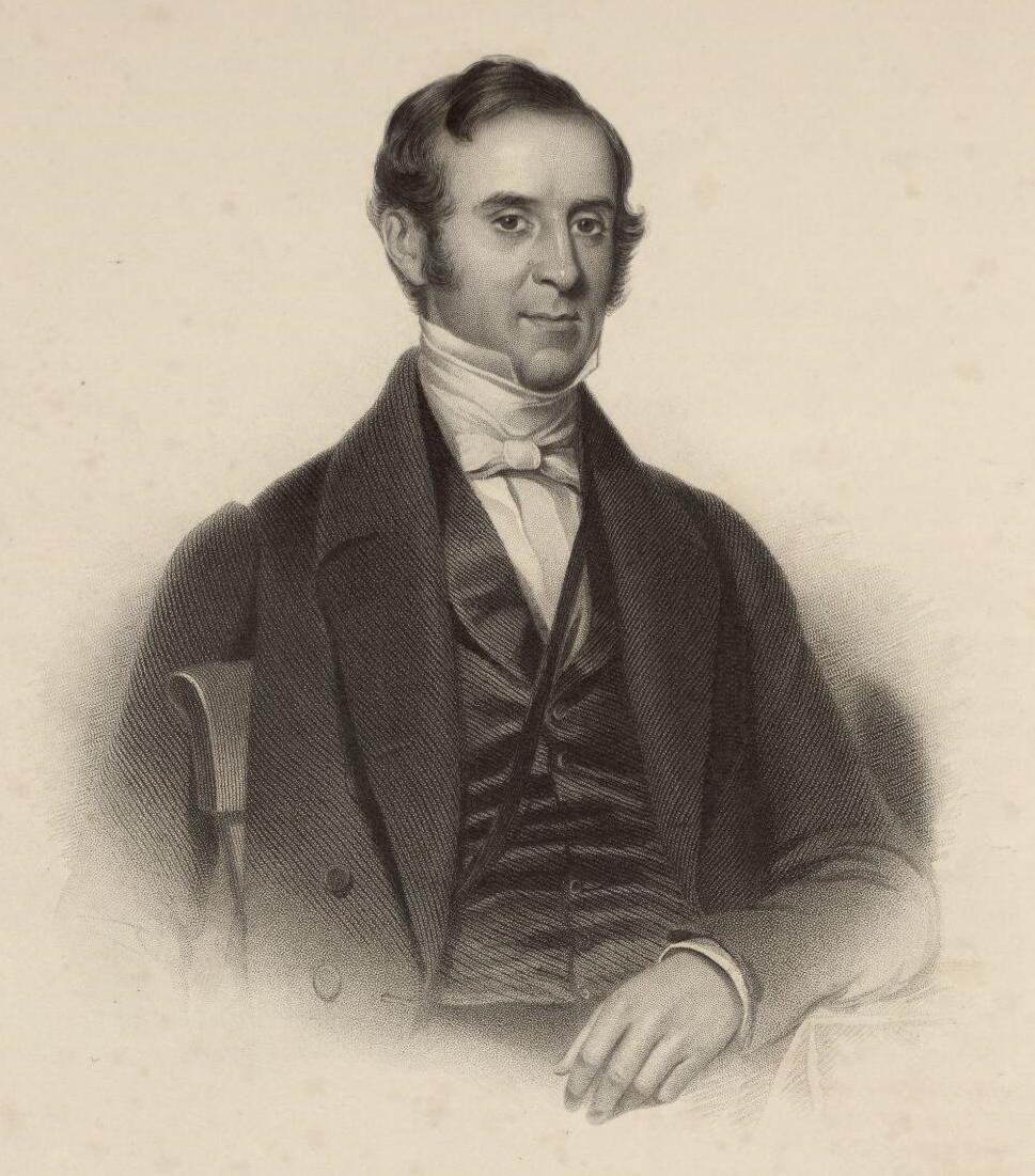 A portrait from the Welsh Portrait Collection at the National Library of Wales. Depicted person: Robert Cotton Mather – English missionary in India